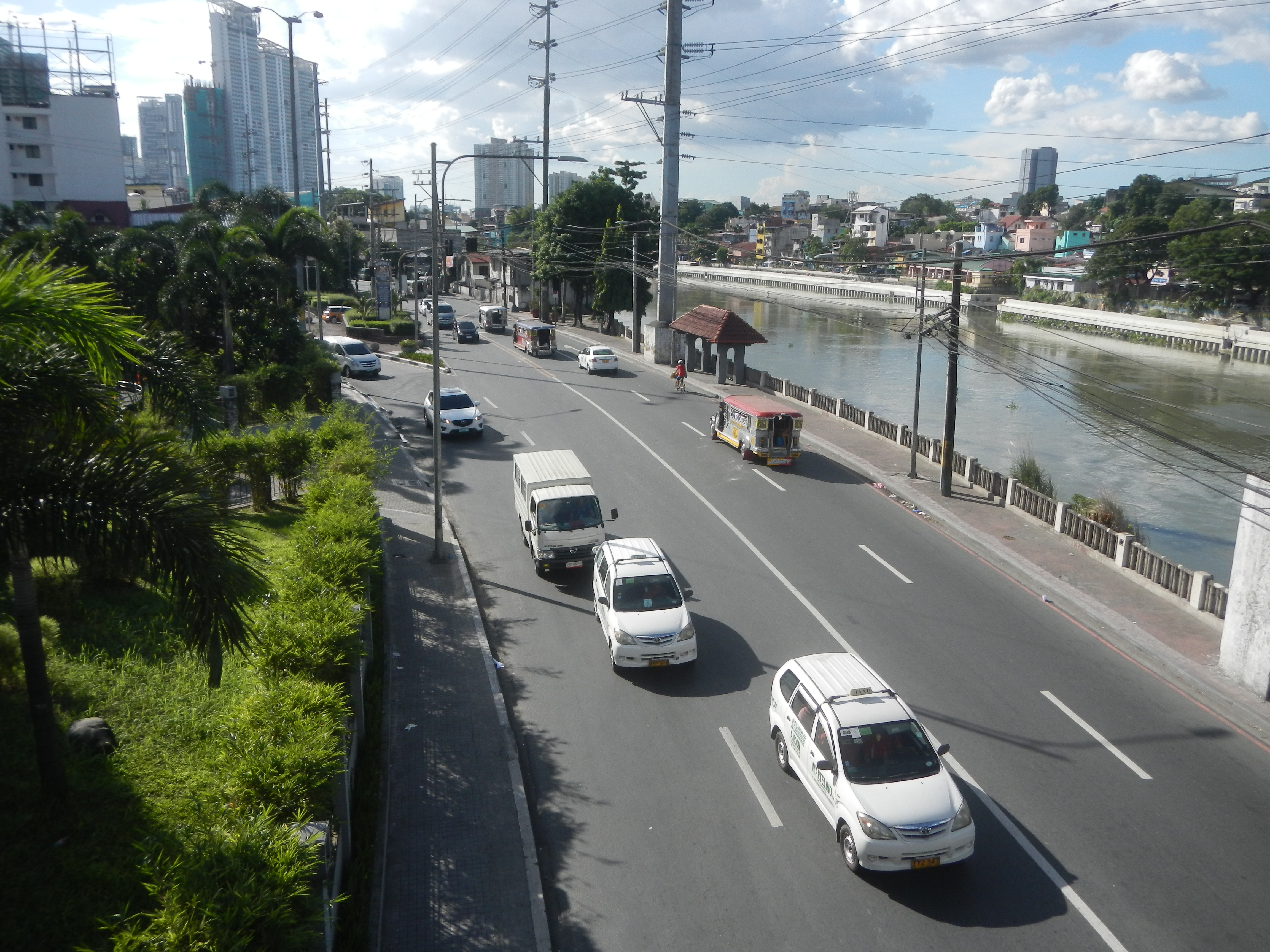 Guadalupe Nuevo-Viejo Bridge - MRT-3 (LRT-3) Track segments Bridge - Guadalupe MRT Station (Pasig River, EDSA, Makati City - Mandaluyong City) Makati City Welcome Monument in EDSA, Mandaluyong City List of barangays of Metro Manila, Barangay Barangka Ilaya 14°34'21"N 121°3'2"E Mandaluyong City along Boni Avenue (Mandaluyong) 14°34'36"N 121°2'5"E Boni Avenue starts from Aglipay Street to Boni Avenue corner Pulog Street, Mayon Street & Lion's Road Mayon Street14°34'28"N 121°2'45"E Pulog Street 14°34'26"N 121°2'42"E gateway to EDSA-Boni Avenue Tunnel - Solar-powered LED Lighting EDSA-Boni Avenue 14°34'19"N 121°2'52"E A 280-meter long tunnel underneath EDSA (Epifanio de los Santos Avenue) connecting Boni Avenue on its western-end and Pioneer Street on the east 4.0 meters vertical clearance Grid-tied Solar-powered LED Lighting Inaugurated May 15, 2012 by Philips Electronics and Lighting, Inc., PNOC-Renewables Corporation, Metropolitan Manila Development Corporation Grid-connected photovoltaic power system Benjamin Abalos, Jr. Benjamin de Castro Abalos, Jr. (born 19 July 1962) Mandaluyong City on the other side is J.P. Rizal Avenue List of barangays of Metro Manila, Legislative districts of Makati, Barangays Guadalupe Viejo 14°33'51"N 121°2'30"E Guadalupe Nuevo 14°33'46"N 121°2'43"E beside Poblacion, Makati, Makati City, Barangay Guadalupe Viejo Makati City Linear Park cum Rivetment Wall (Note: Judge Florentino Floro, the owner, to repeat, Donor Florentino Floro of all these photos hereby donate gratuitously, freely and unconditionally all these photos to and for Wikimedia Commons, exclusively, for public use of the public domain, and again without any condition whatsoever).